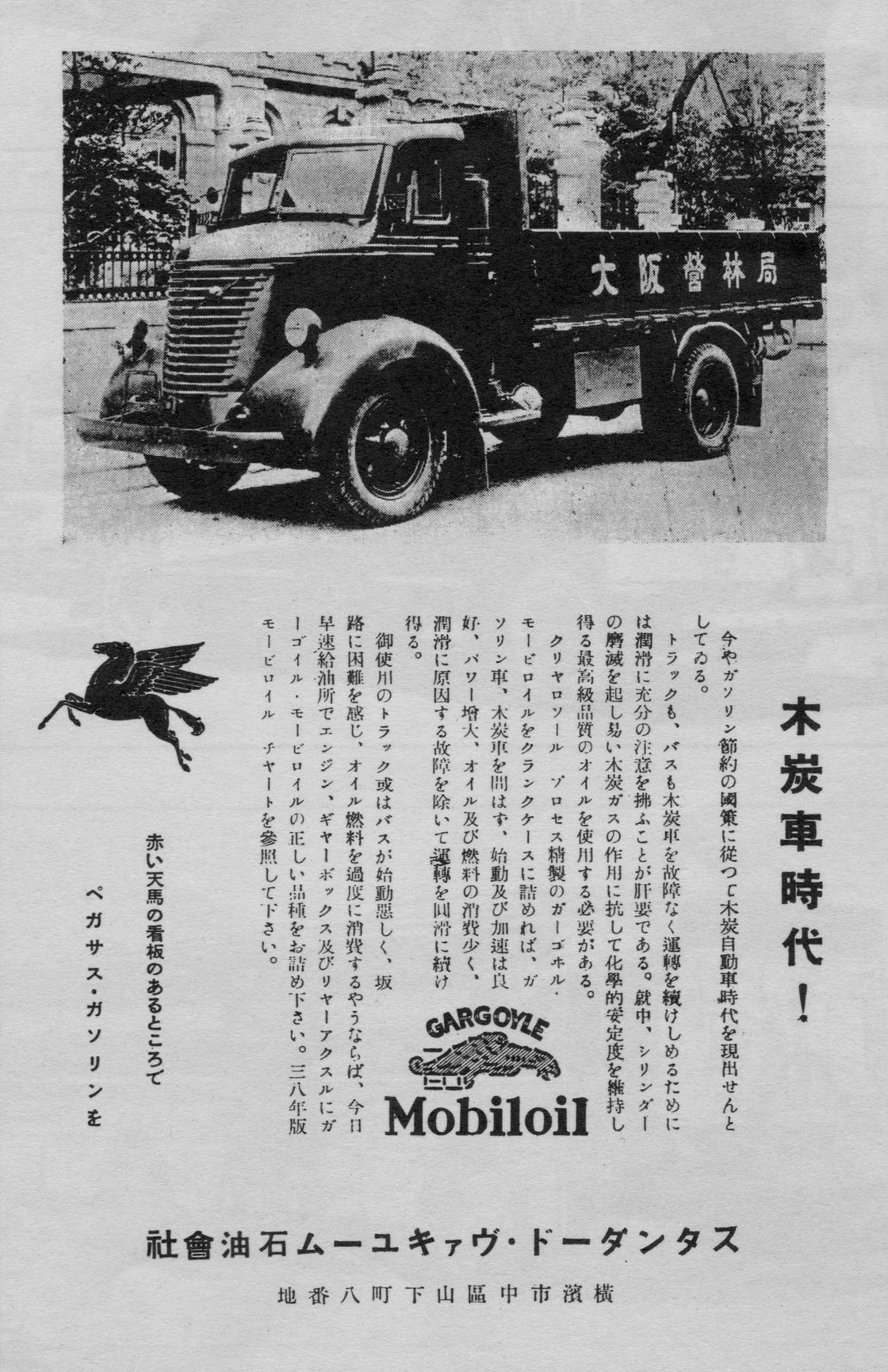 Ads of the lubricating oil out in October 1938, Standard Vacuum Oil company sells.